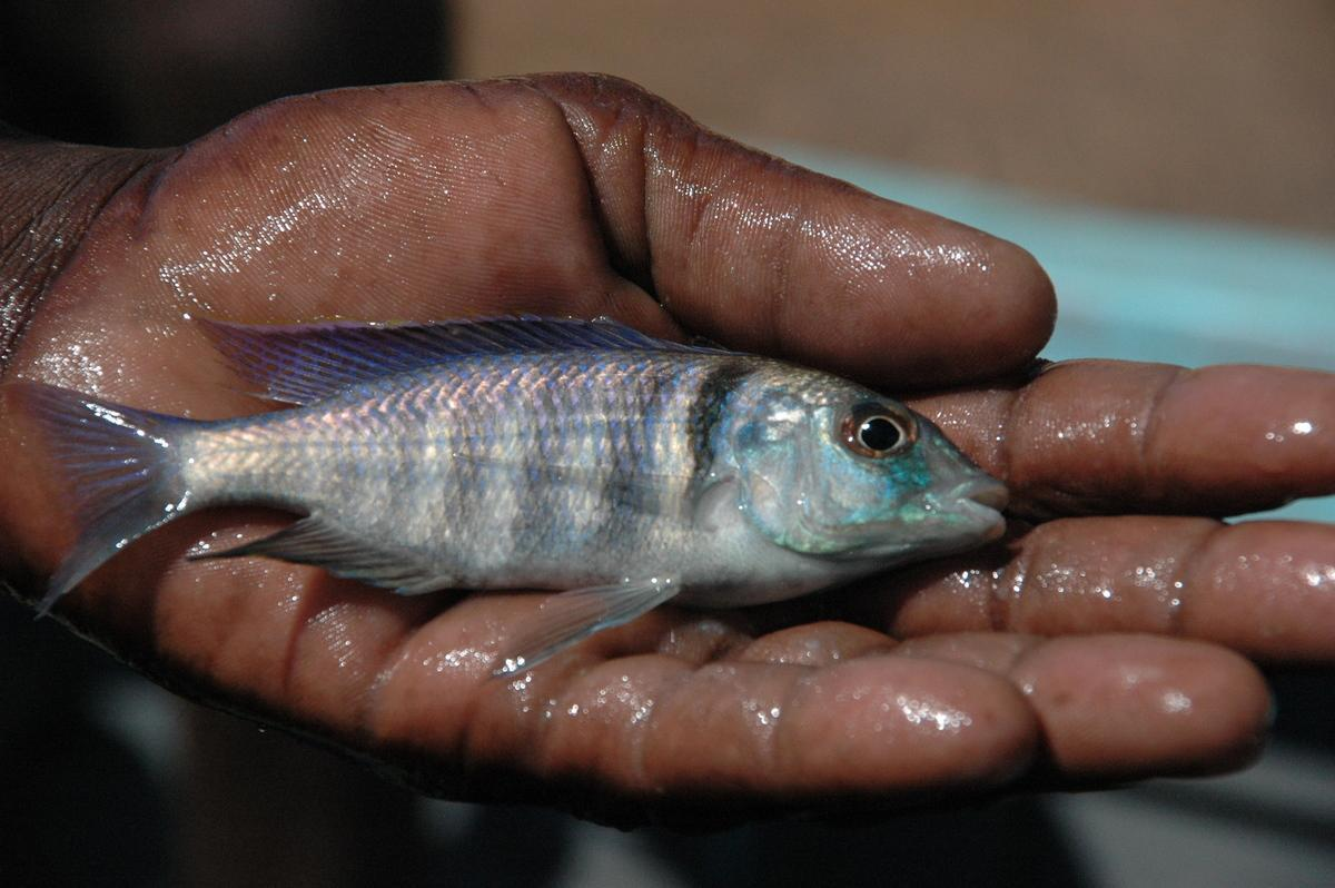 Likoma Island, Lake Malawi ... The guys are taken the fish to the fish farm ... malawi cichlidea for European aquariums ...chambo